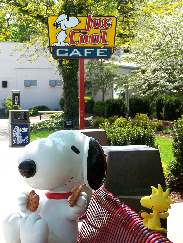 Joe Cool Cafe at Cedar Point